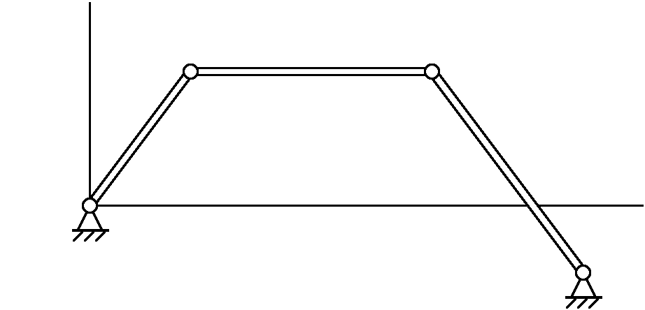 Grashof's theorem in the theory of mechanisms